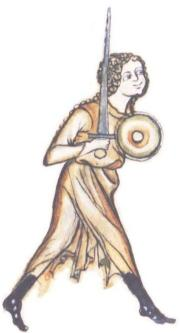 Detail of Medieval Royal Armouries Ms. I.33, fol. 32r (p. 63).[1] Note that this is not a rectancular crop of the original; the figure has been cut out along its outlines, replacing the surrounding parchment and text with a white background. The detail is from one of four illustrations on fol. 32 of this manuscript where the "scholar" (student) is replaced by a woman, called "Walpurgis" in the ms. text.